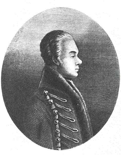 Portrait of Gergely Berzeviczy